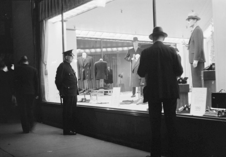 A passerby and a policeman admire a menswear showcase of Simpson's store on St. Catherine Street in Montreal.